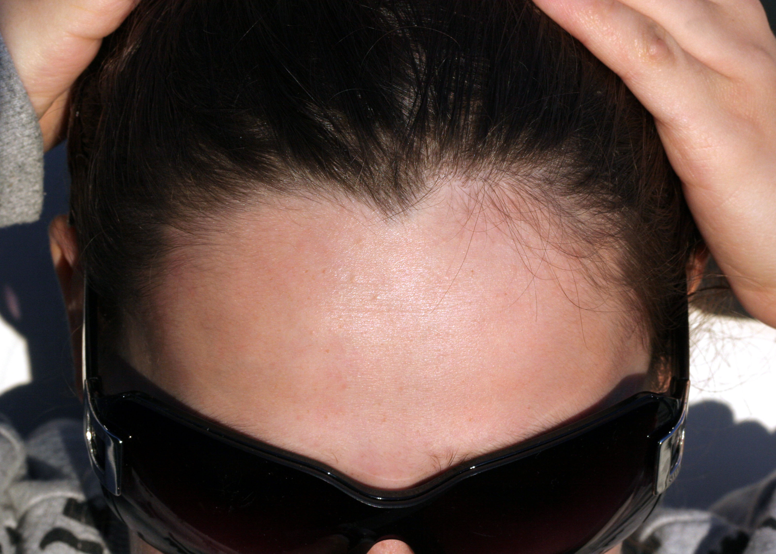 Seventeen year old girl with Widow's peak